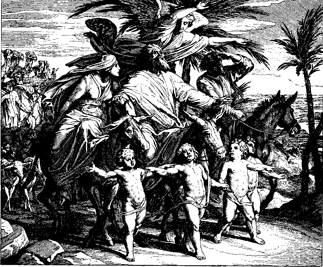 Woodcut for "Die Bibel in Bildern", 1860.